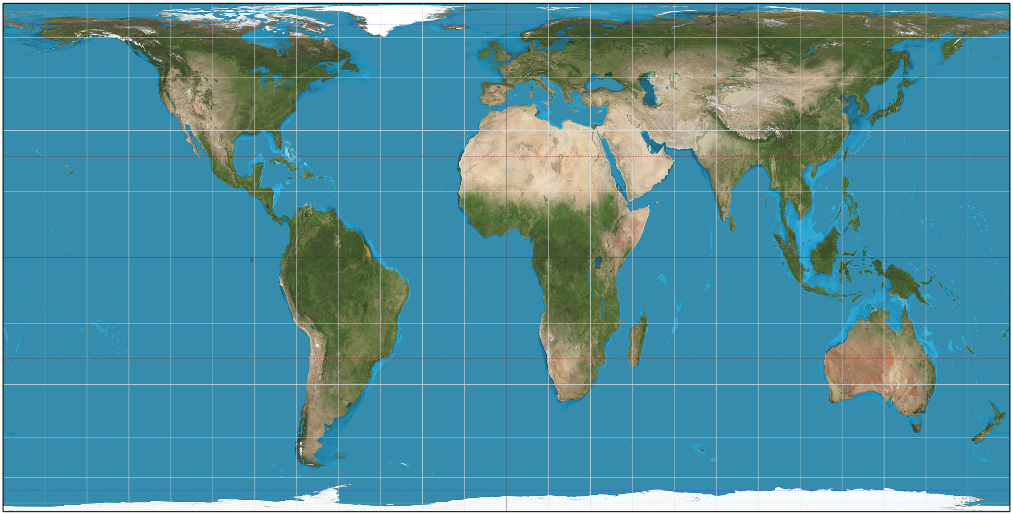 The world on Hobo–Dyer projection. 15° graticule. Imagery is a derivative of NASA’s Blue Marble summer month composite with oceans lightened to enhance legibility and contrast. Image created with the Geocart map projection software.